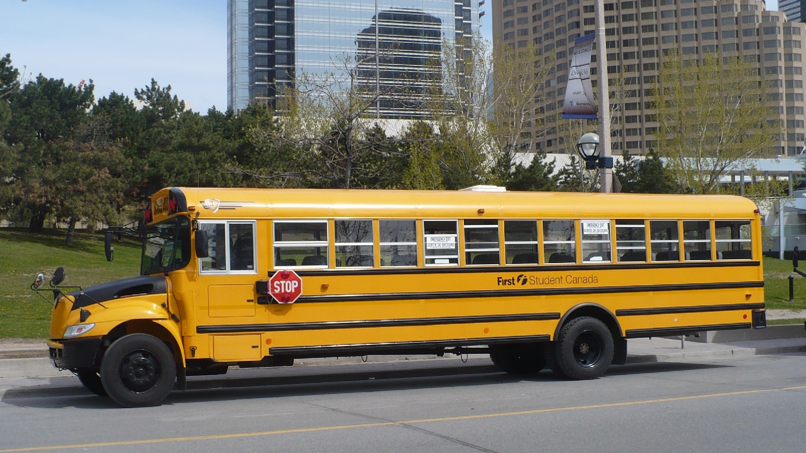 A typical First Student Canada school bus.